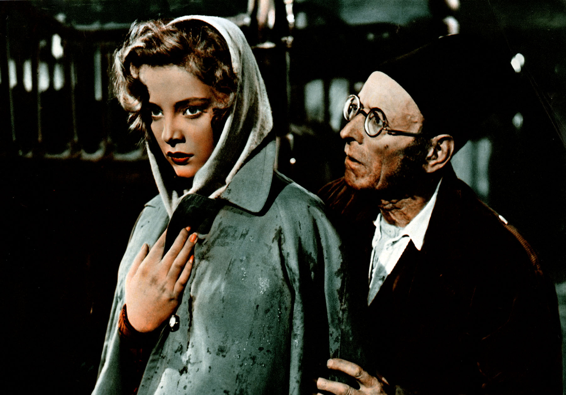 screen from the Italian film 'Luna nuova (1955)